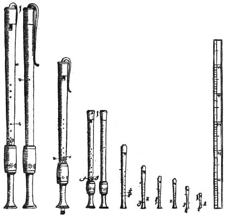 Renaissance recorder flutes.